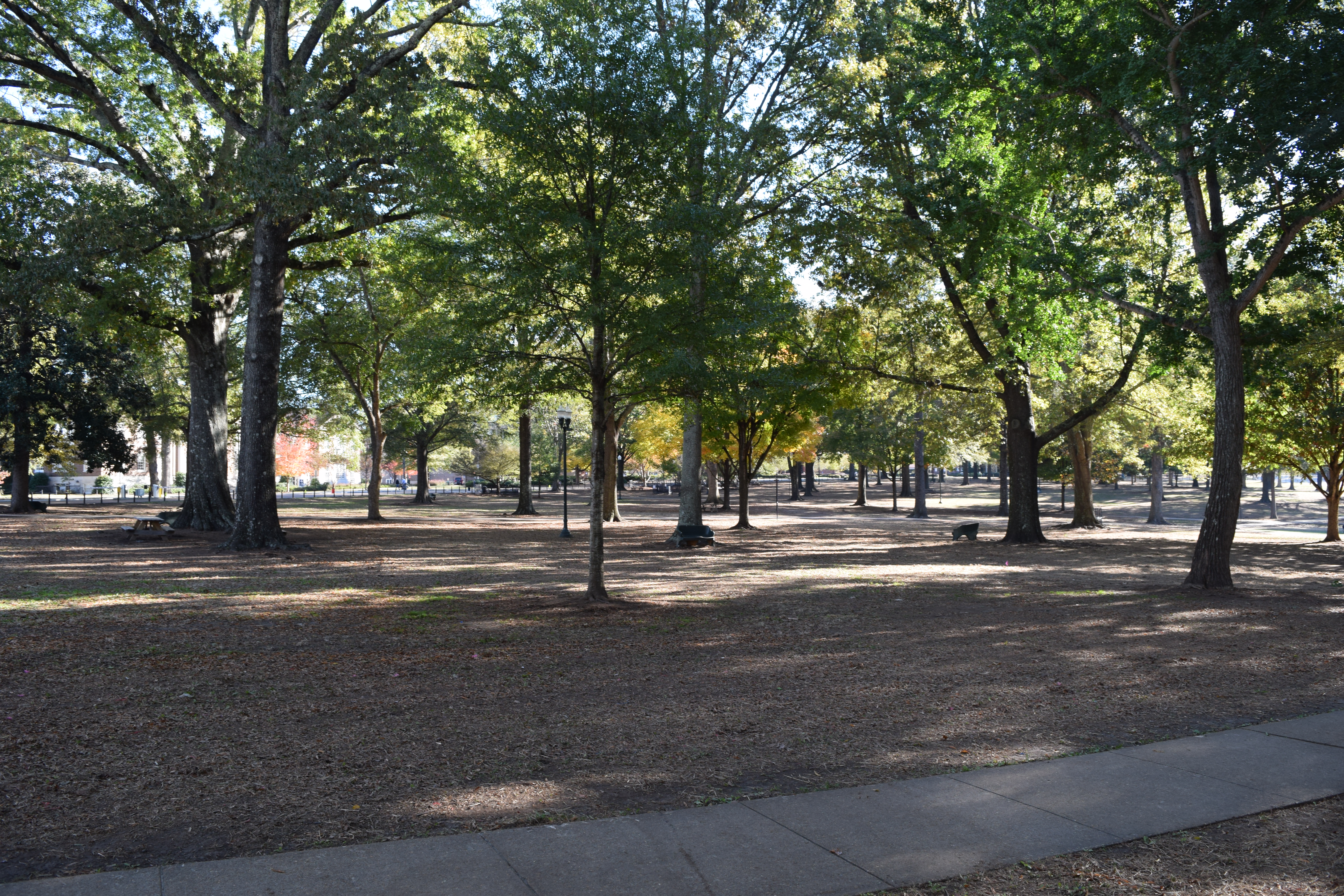 The Grove at the University of Mississippi in November 2018